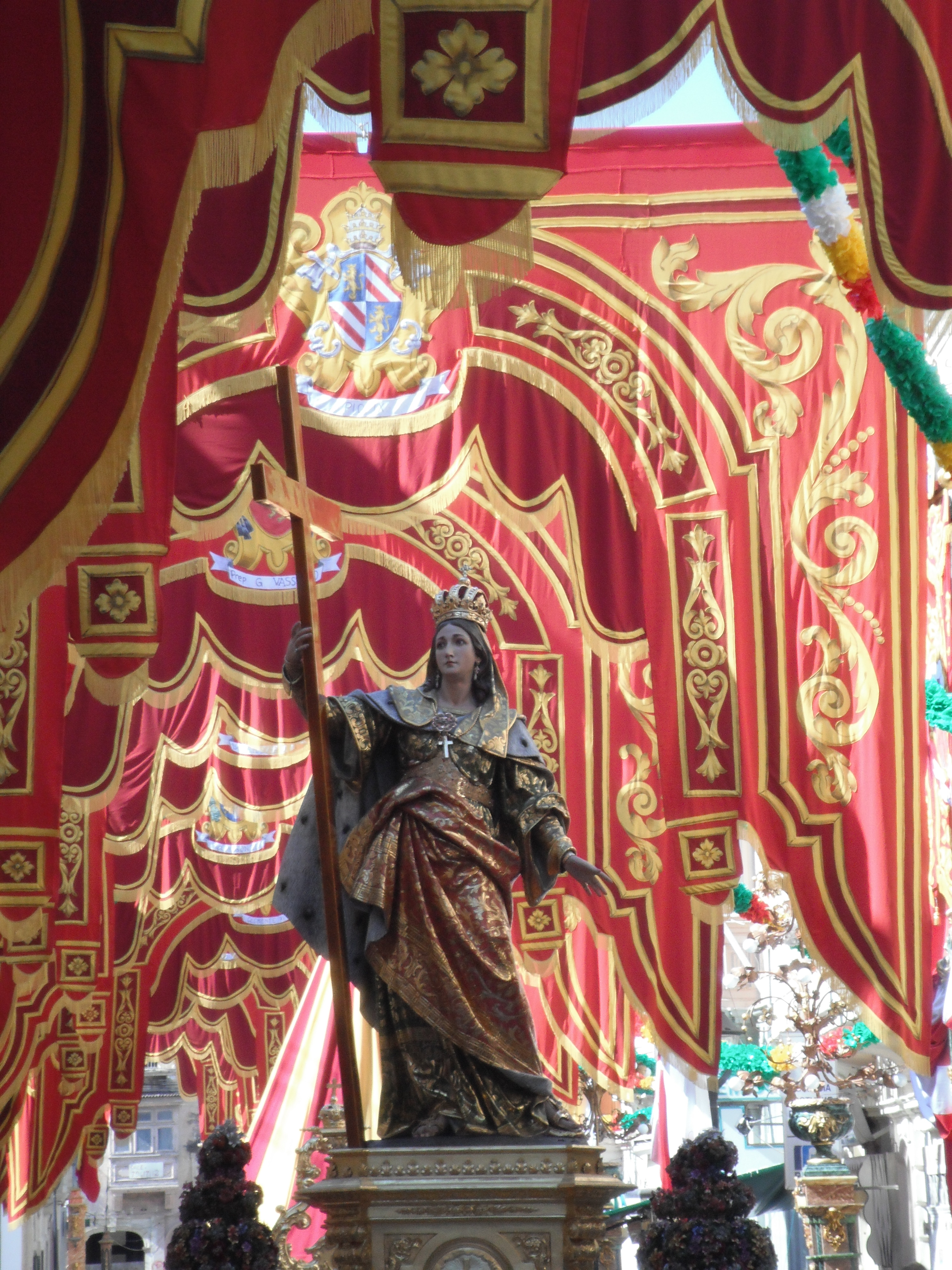 Titular statue of Saint Helen, Birkirkara, Malta during the village festa procession, 21st August 2011 Malti: Il-Vara titulari ta' Santa Liena, Birkirkara Malta, waqt il-purcissjoni tal-festa tar-raħal, 21 Awissu, 2011